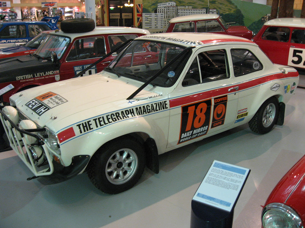 The Ford Escort (pushrod engined prototype based on the RS1600) which won the 1970 London to Mexico World Cup Rally, in the hands of Hannu Mikkola, at the Heritage Motor Centre in Gaydon, Warwickshire, England. Mikkola's co-driver was Gunnar Palm.